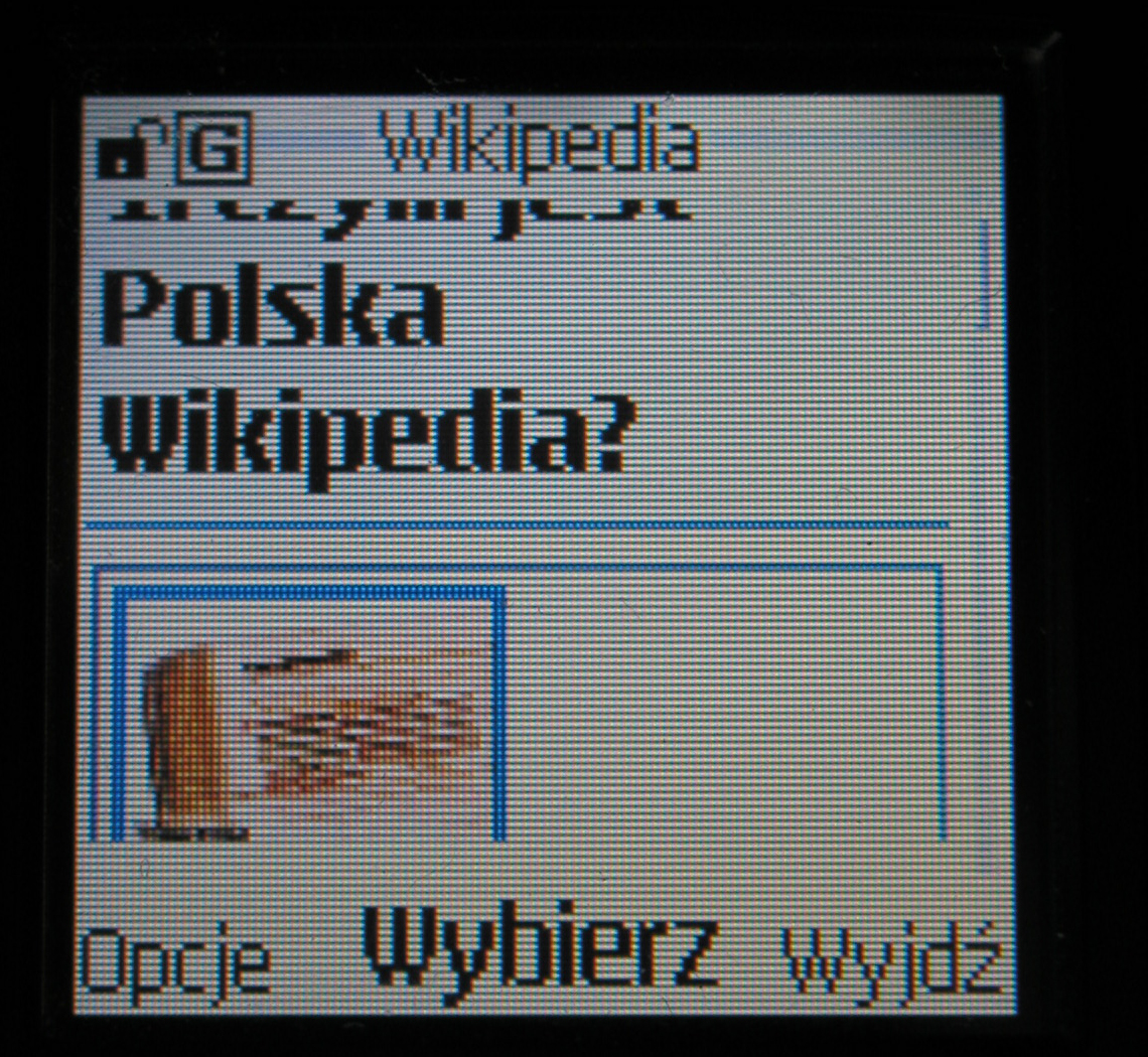 View of images in Wapedii on mobile phone display